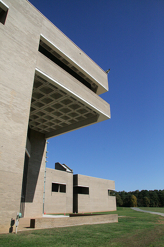 North Carolina Museum of Art, as seen from the sculpture field side.